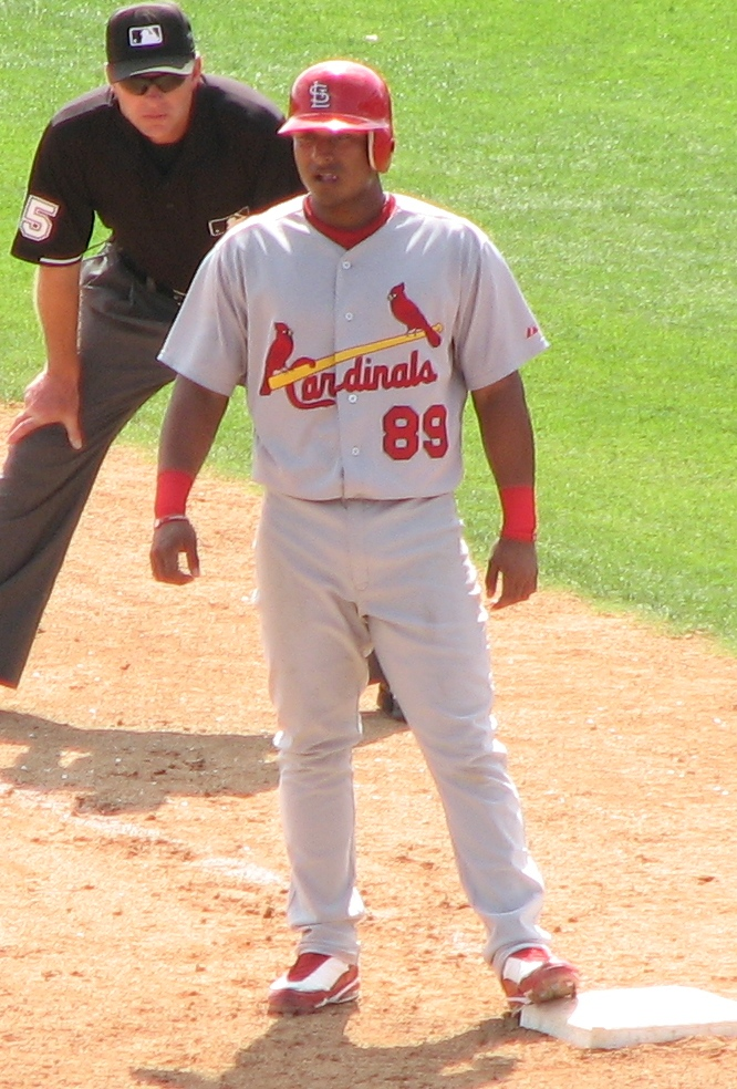 Picture of Donovan Solano